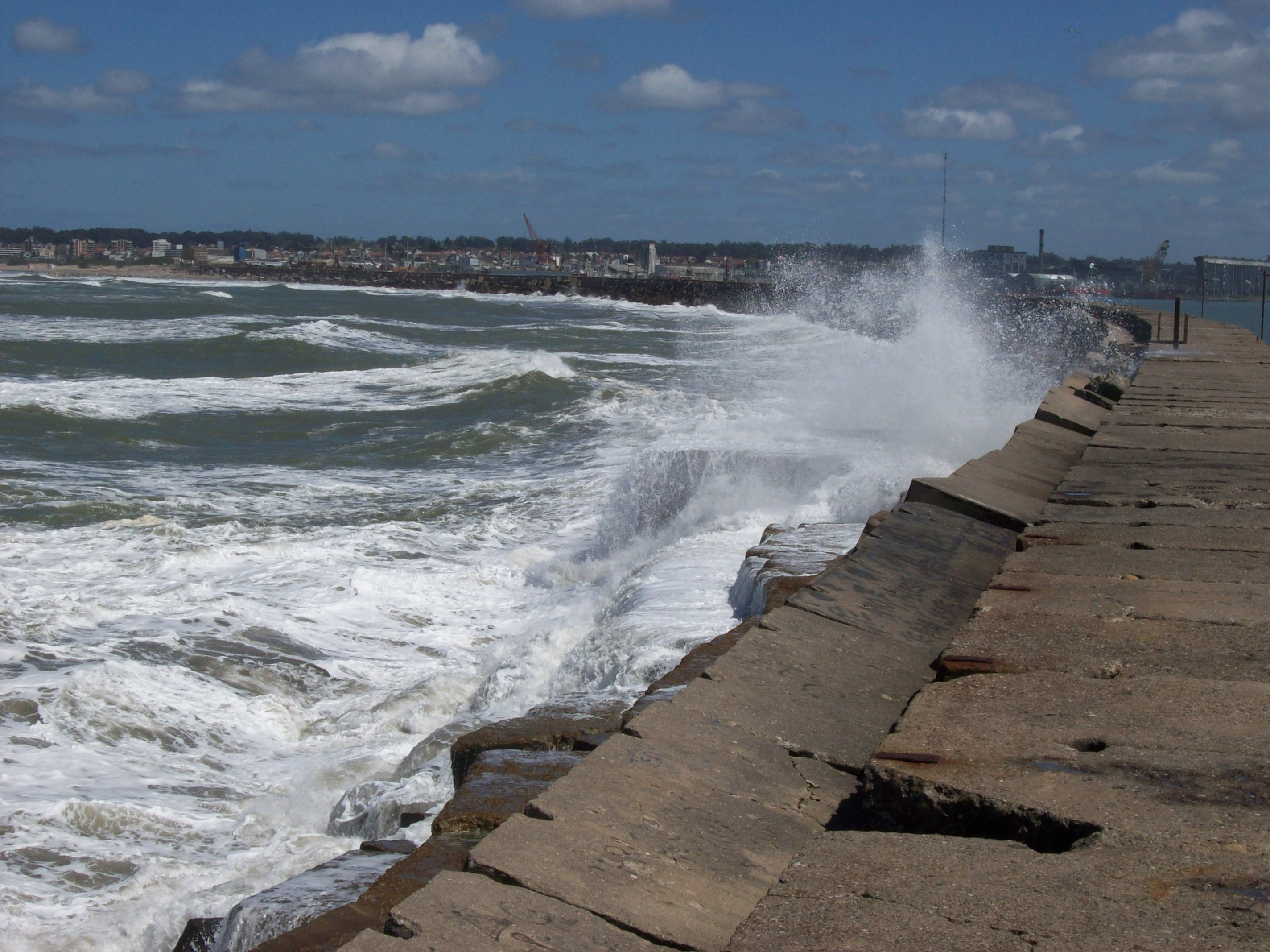 Escollera sur at Mar del Plata harbor, Buenos Aires Province, Argentina.